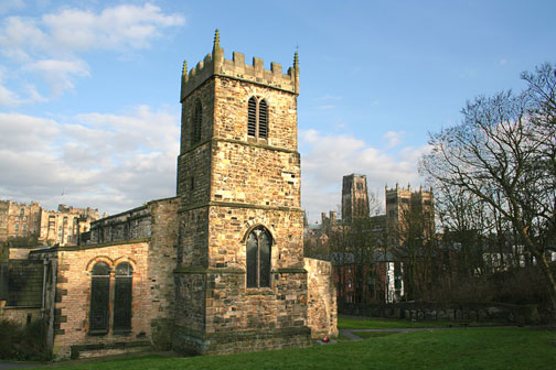 Exterior view of St Margaret's (12th-century Parish Church on Crossgate, Durham City) with the Castle and Cathedral in the background.